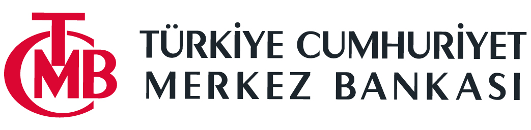 Official Logo of the Central Bank of the Republic of Turkey